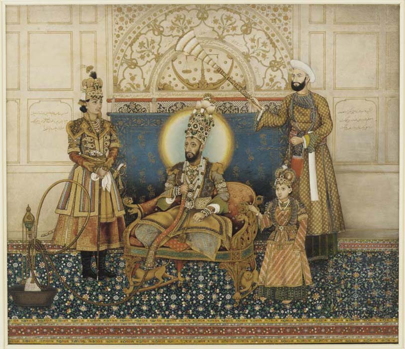 Bahadur Shah II enthroned with Mirza Fakhruddin. Opaque watercolor, ink, and gold on paper H. 12 3⁄16 × W. 14 3⁄8 in. (31 × 36.5 cm) The Art and History Collection Courtesy of Arthur M. Sackler Gallery, Smithsonian Institution, Washington, D.C., LTS1995.2.105